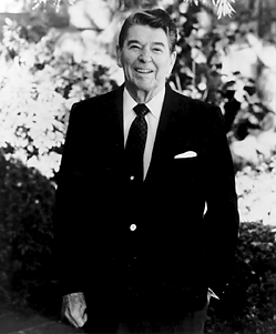 Ronald Reagan in a candid shot